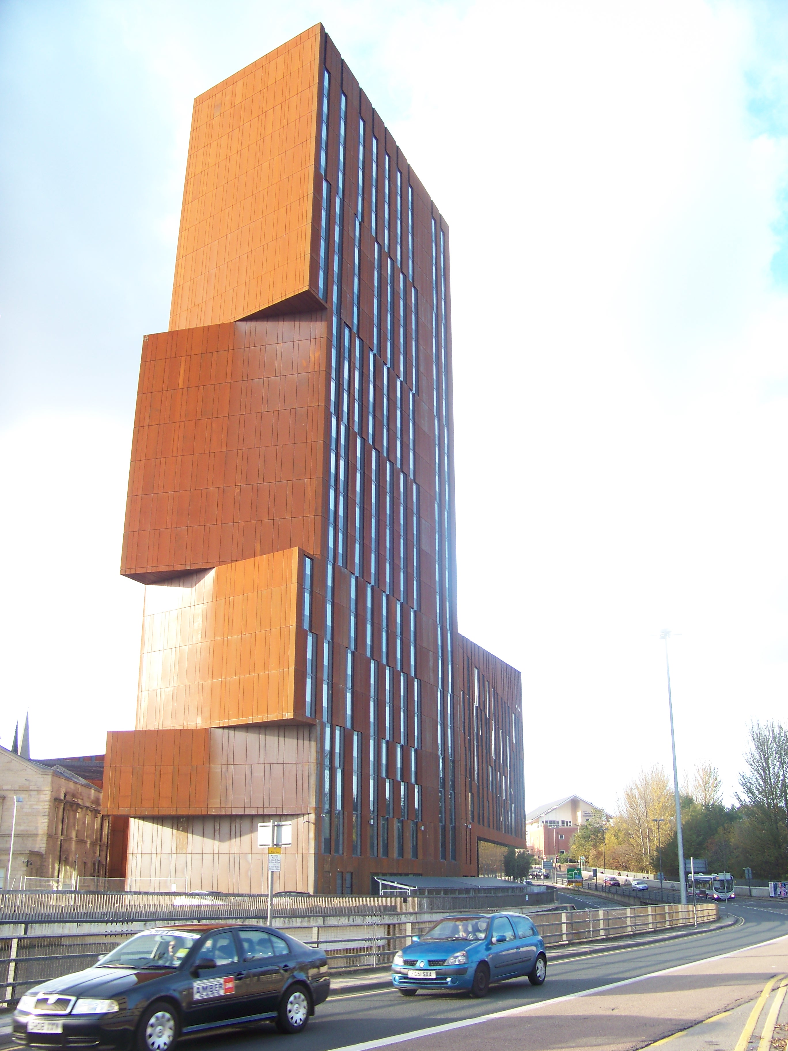 Broadcasting Tower, Leeds. Taken on the afternoon of Friday the 16th of October 2009.